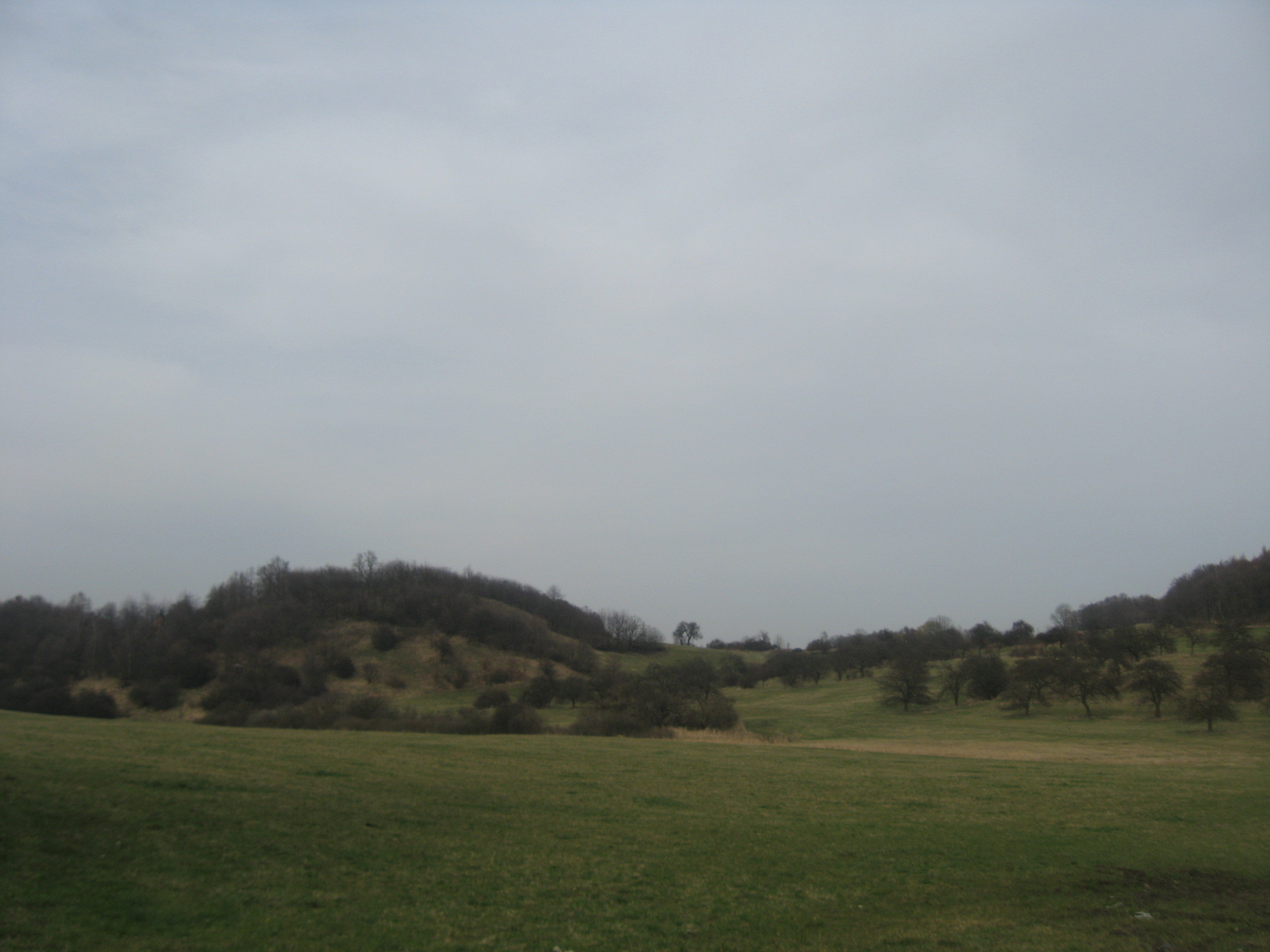 Hill Hadí vrch at Paškapole pass